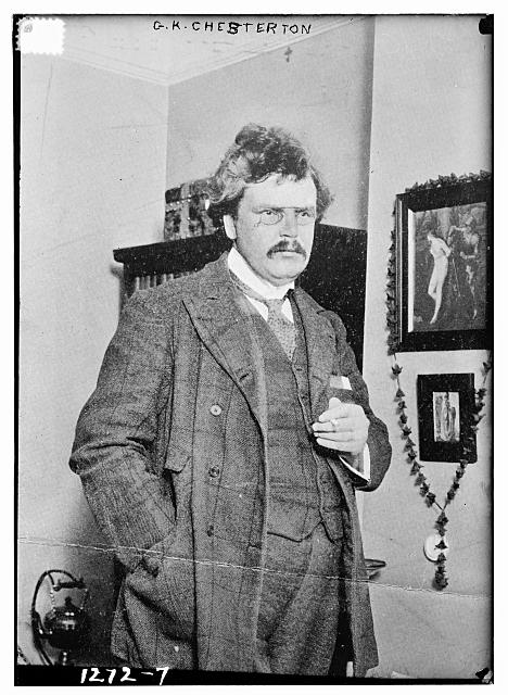 Gilbert Keith Chesterton, (b. 29 May 1874 – d. 14 June 1936), English writer